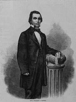 William L. Yancey, three-quarter length portrait, standing, facing slightly right.